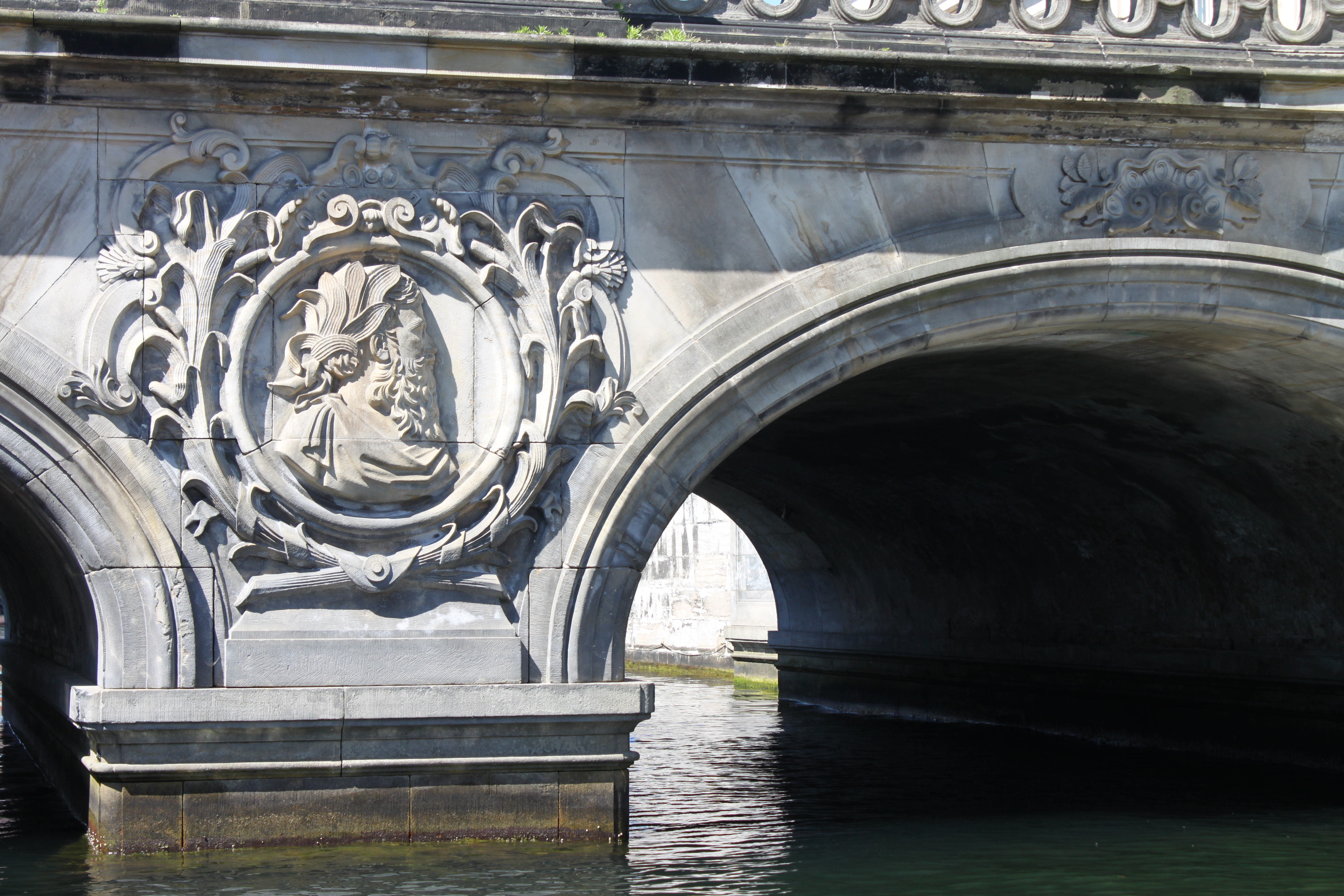 Detail of the Marble Bridge across Frederiksholms Kanal in Copenhagen, Denmark